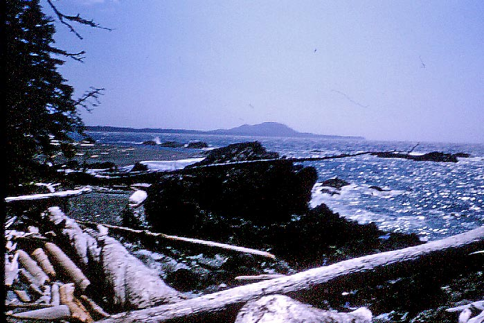 I created this image in June, 1968 using a Pentax single-lens reflex camera equipped with a 50 mm lens and loaded with Kodachrome film. The image depicts Oval Bay on the western edge of Porcher Island, British Columbia. The view is looking southward from Welcome Harbour.